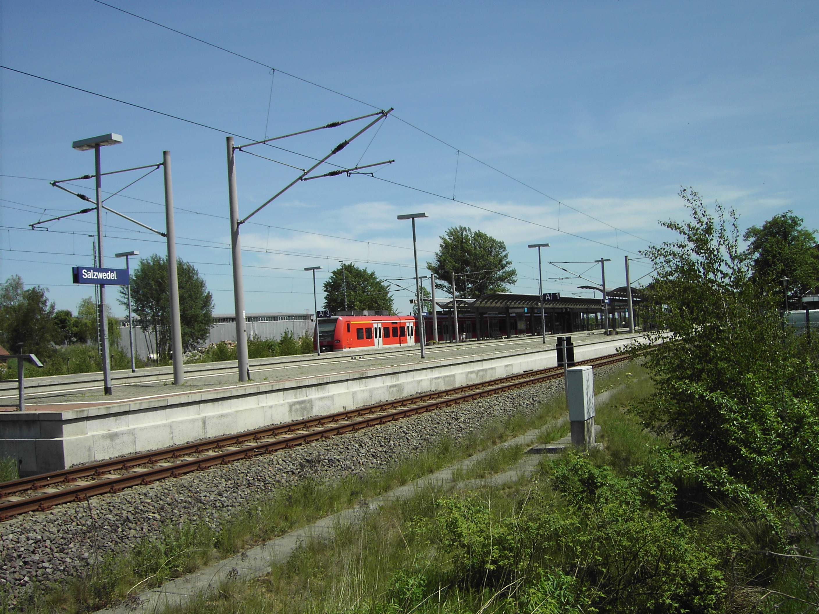 Station of Salzwedel, track area